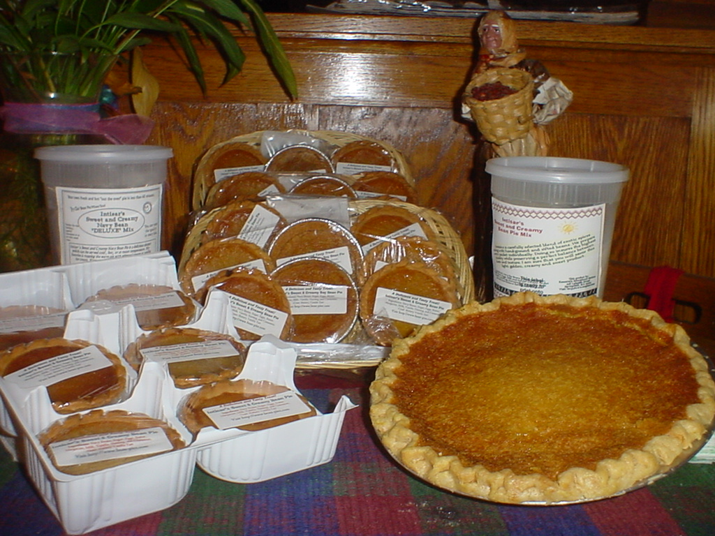 This is a picture of bean pies home made by Intisar's Navy Bean Pie recipe from Springfield, MA.